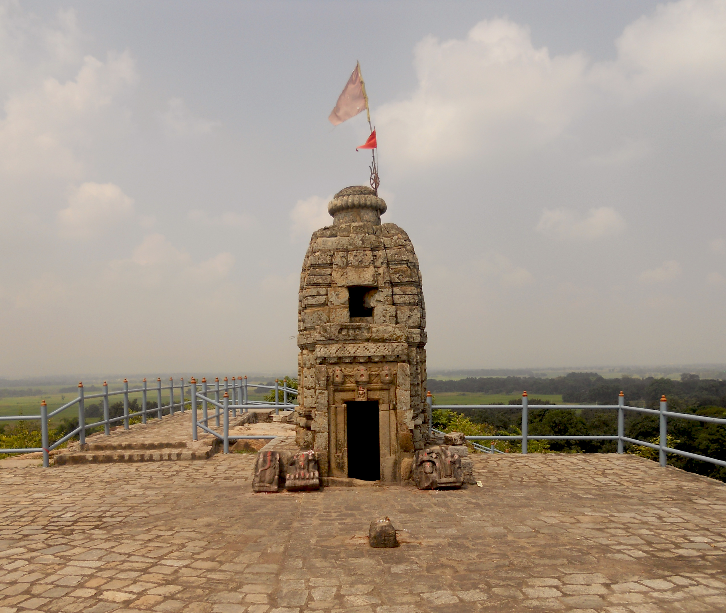 Made by Local boulders,this Shiva temple is situated on the hill top of the Khakparta Village. This temple is erected directly on the surface of the hill without having any foundation. there is a narrow entrance of one meter height to the temple facing east. A Shiva Linga is installed in the Grabhagriha which is presiding deity of the temple. Planned in the triratha, the shikara of the temple is crowned with an amlaka. The height of the temple is about four meter. This temple has the same style and affinity with those of deol type shrines of Odisha that have come of during the medieval period. Recently, the Archaeological Survey of India has exposed group of small temples through scientific clearance in the foot-hill areaand all the temples are dedicated to lord Shiva as all excepting one are having Shiva-Linga installed in the Shrines.